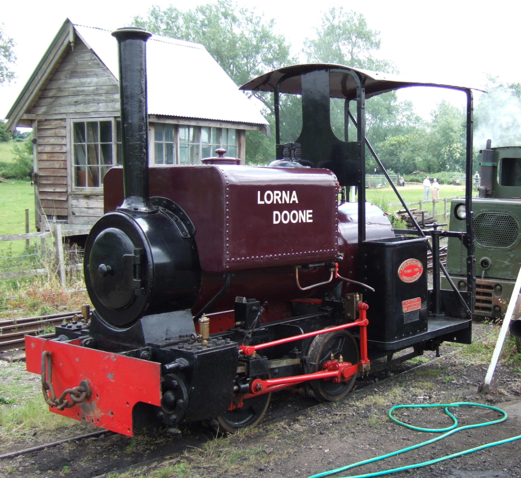 Amerton Railway. KS 4250 of 1922 0-4-0ST 'Lorna Doone' on loan from Birmingham Museums. This is a 'Wren' class engine. 18th June 2005 Photographer - A.M.Hurrell Camera - Fuji FinePix F10 Modified - File size reduced using FinePix Software